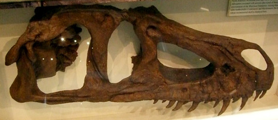 Skull of Marshosaurus as displayed at the Carnegie Museum of Natural History